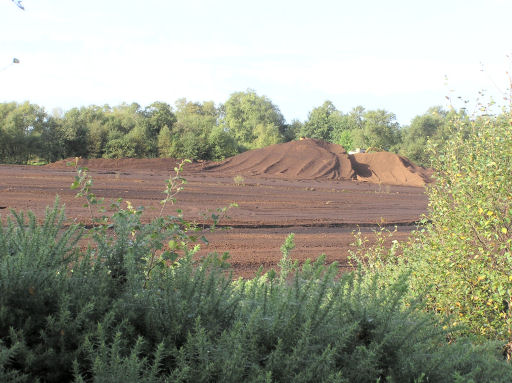 Peat collection at Arvalee. Peat is being extracted mechanically from bogland for domestic gardens. When it was cut by traditional labour intensive methods, it did not make the same impact on the countryside.